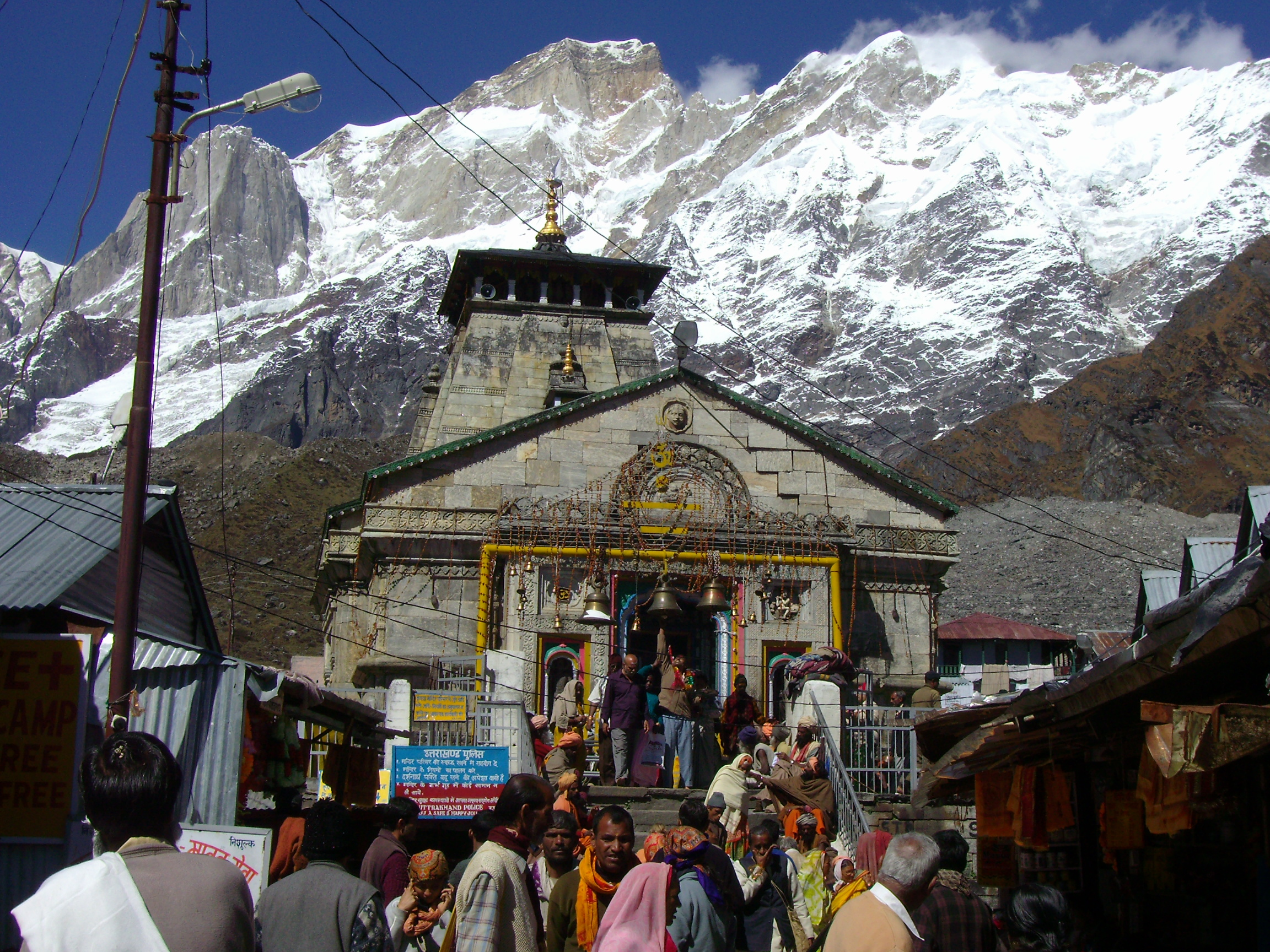 Kedarnathji temple in Kedarnath, Uttarkhand, India